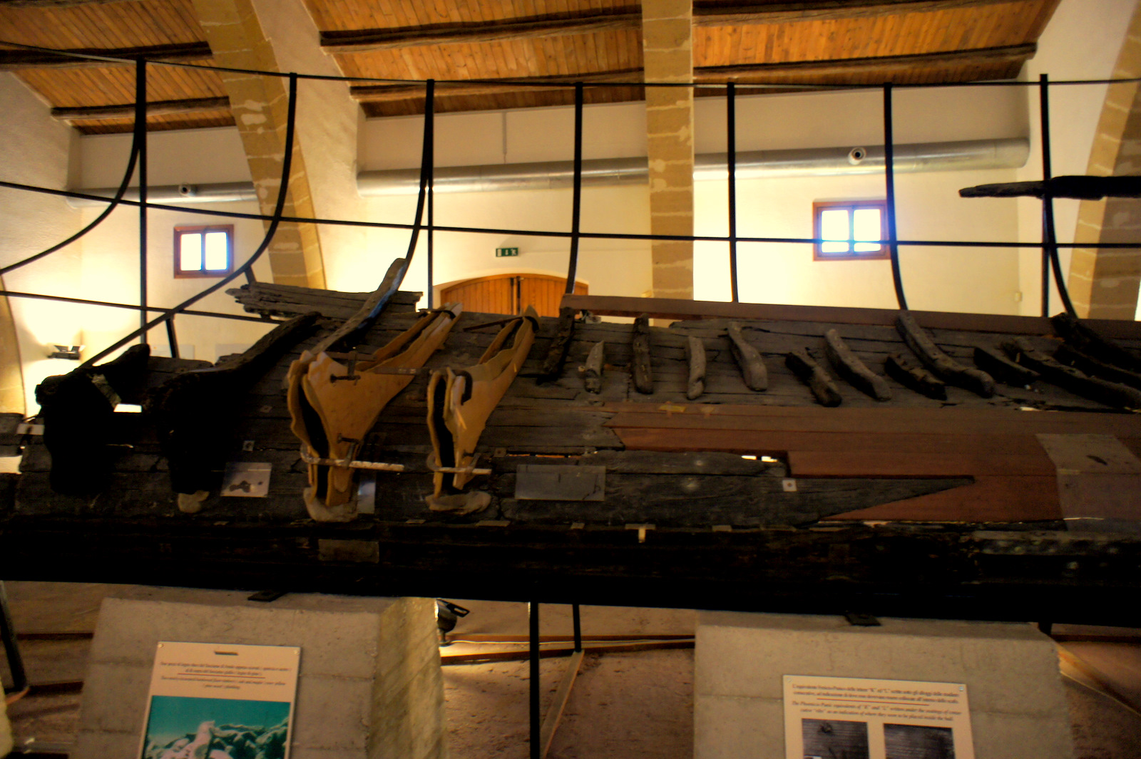 The Marsala ship